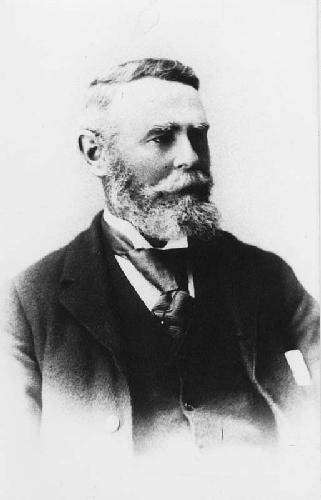 Portrait photo; one of several photos from the Henry Handley Brown collection. H. H. Brown was the father of Henry Brown. I enquired with the library whether this photo is of the subject, and their response was: "I have had a look in our records for the Brown family archive (ARC2003-525) of which this photograph is a part and I believe it is of Henry Brown (1842-1921). [Name omitted here for privacy], Pictorial Collection Technician, Puke Ariki and District Libraries" From the collection of Puke Ariki, New Plymouth (ARC2003-525).